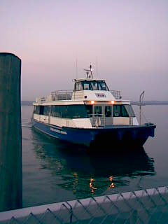 The "Admiral Richard E. Bennis" approaches the Haverstraw ferry dock.